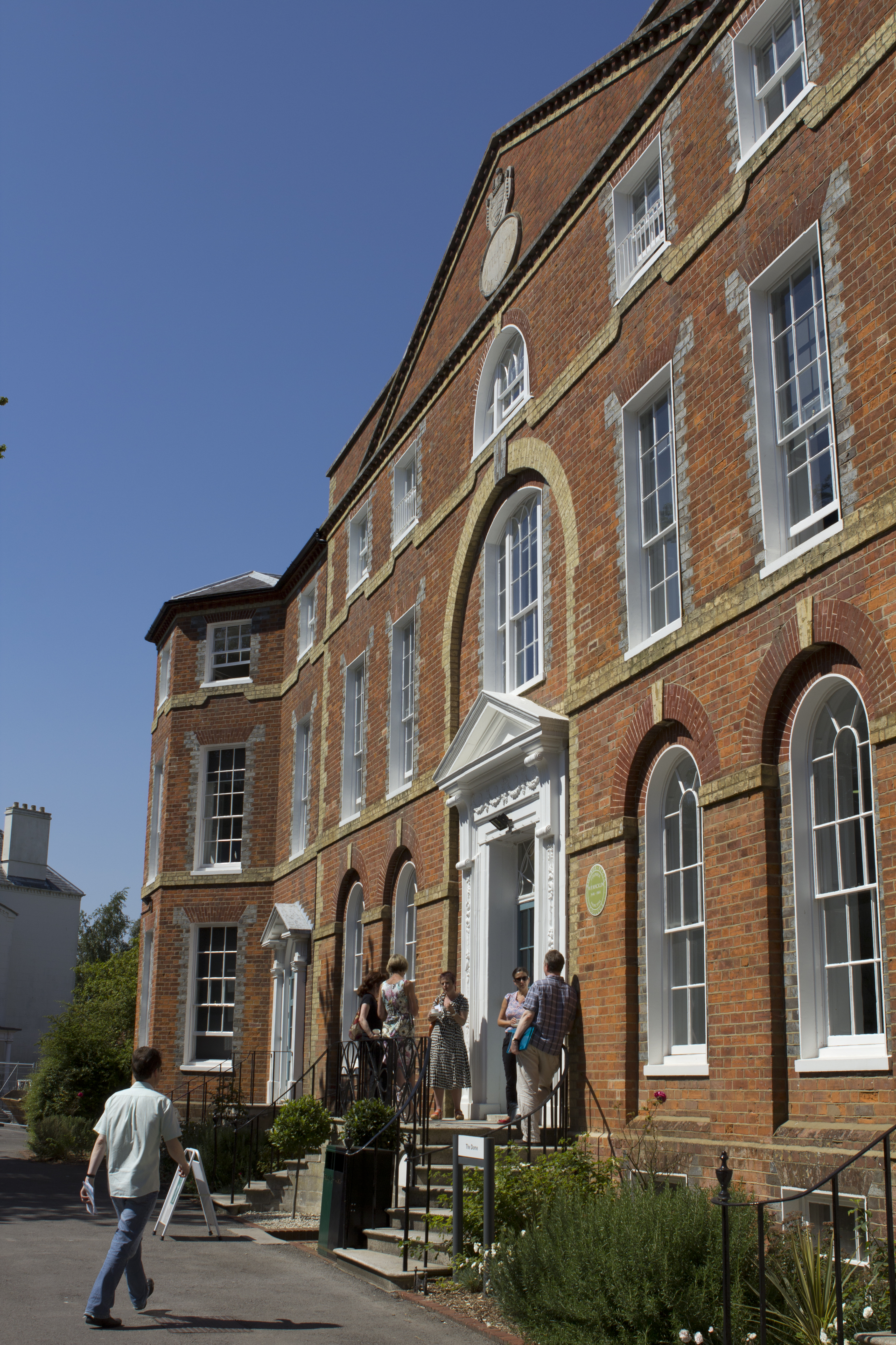 'The Dome'